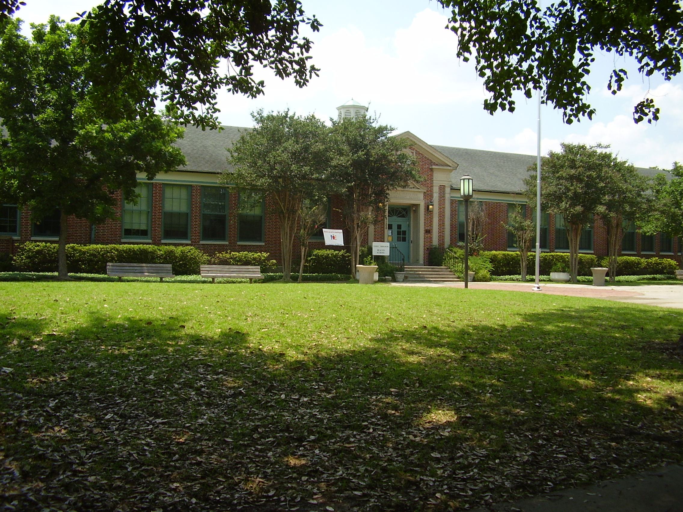 Edgar Allan Poe Elementary School